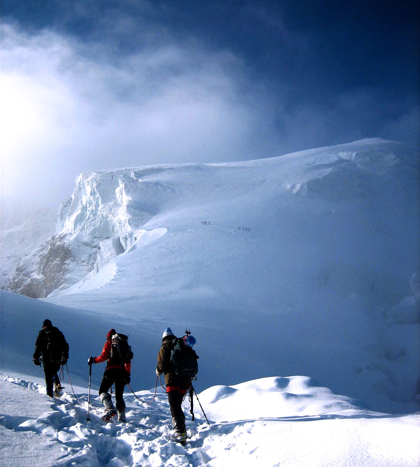 Ortler ascent (3,905m/ 12,812ft) South Tyrol